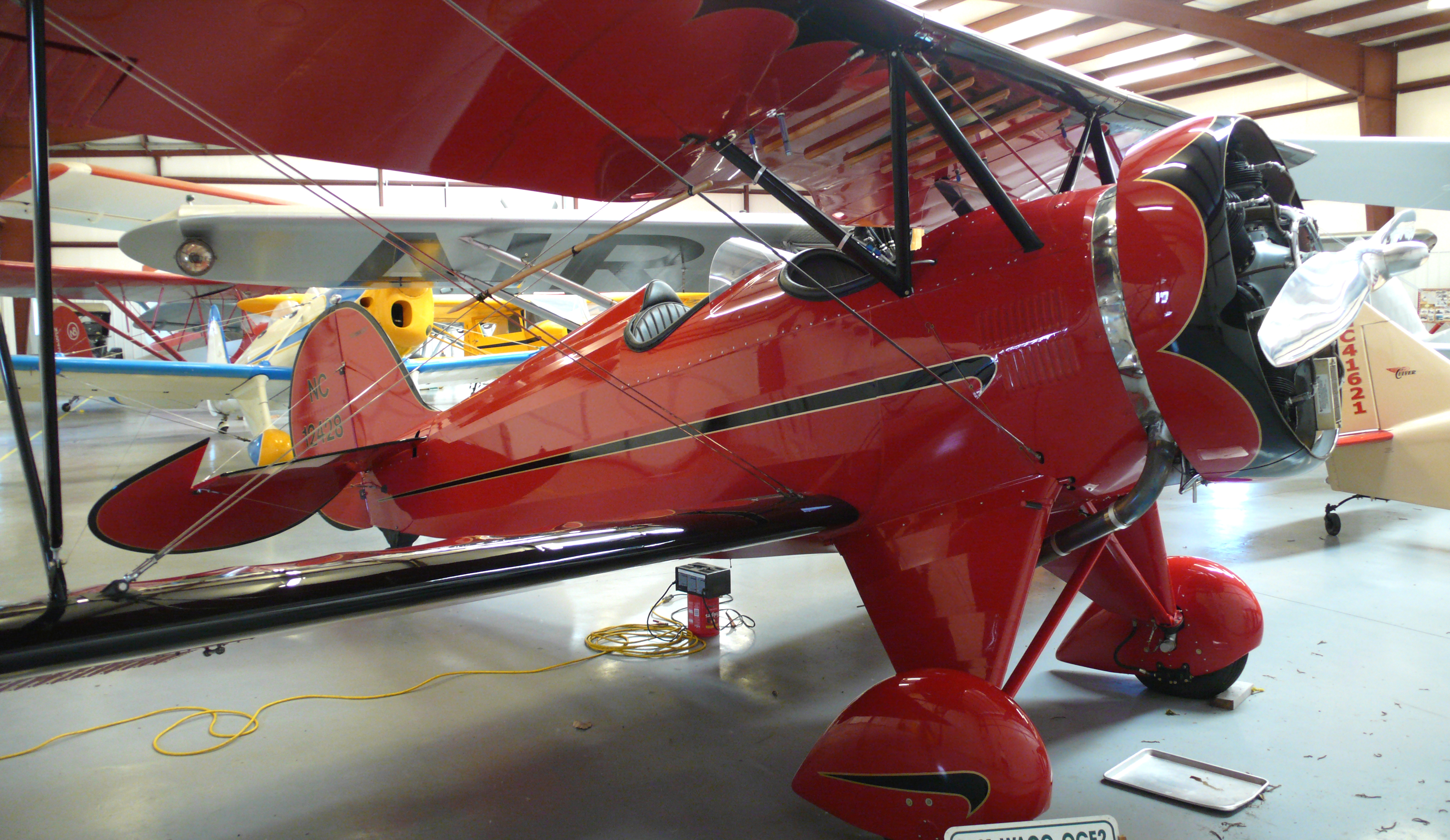 WACO QF2, built 1931